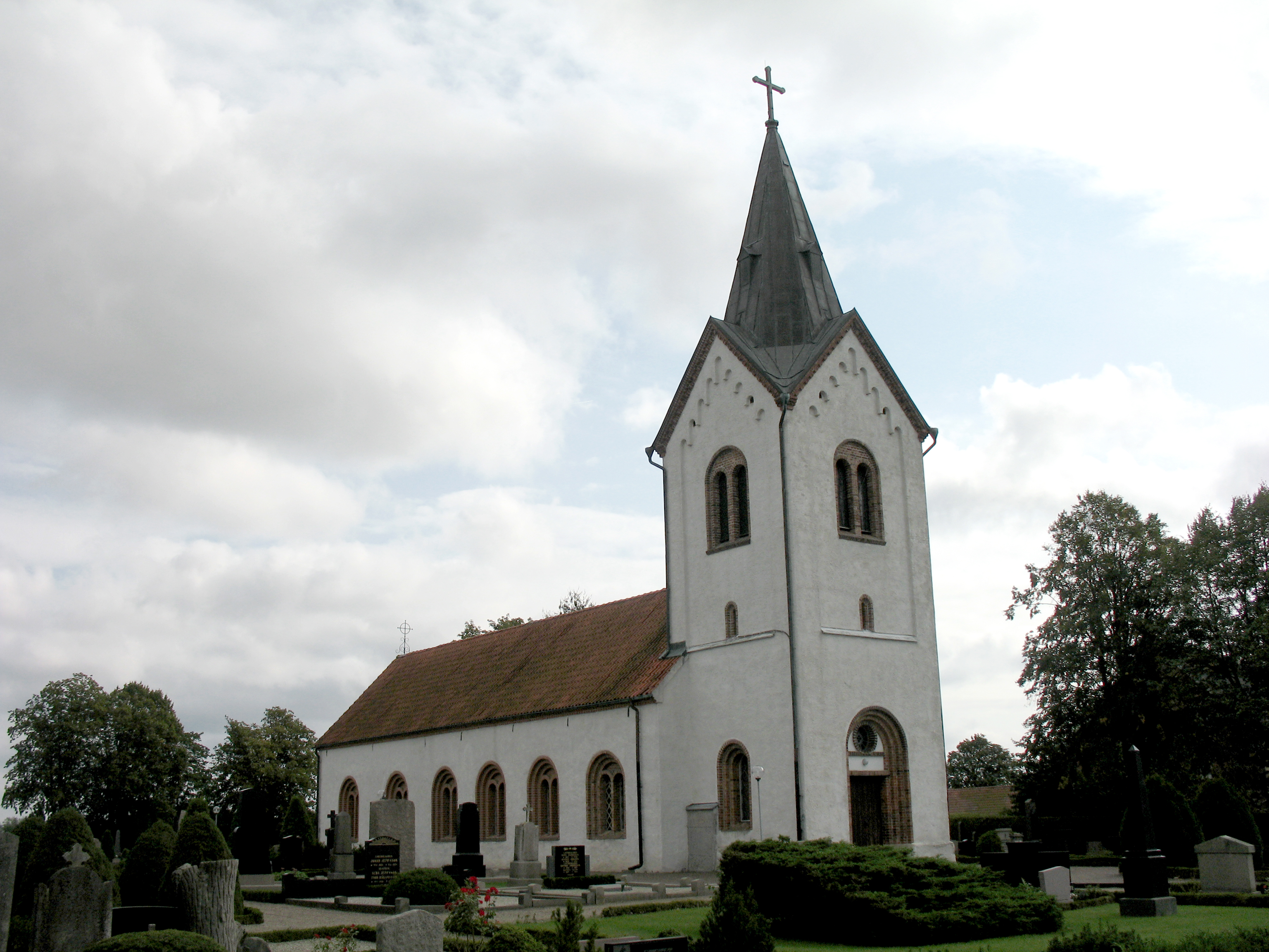 Photograph of a church in Kyrkheddinge, Sweden, in September 2008.